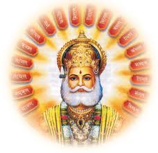 Photo of Maharaja Agrasena